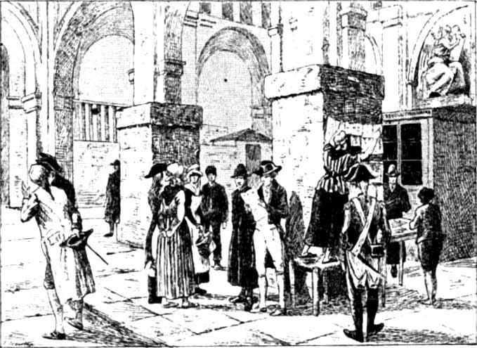 The Lost Steps Room of the Palais de Justice and the Entrance of the Revolutionary Tribunal in 1793, after a painting by Léopold Boilly